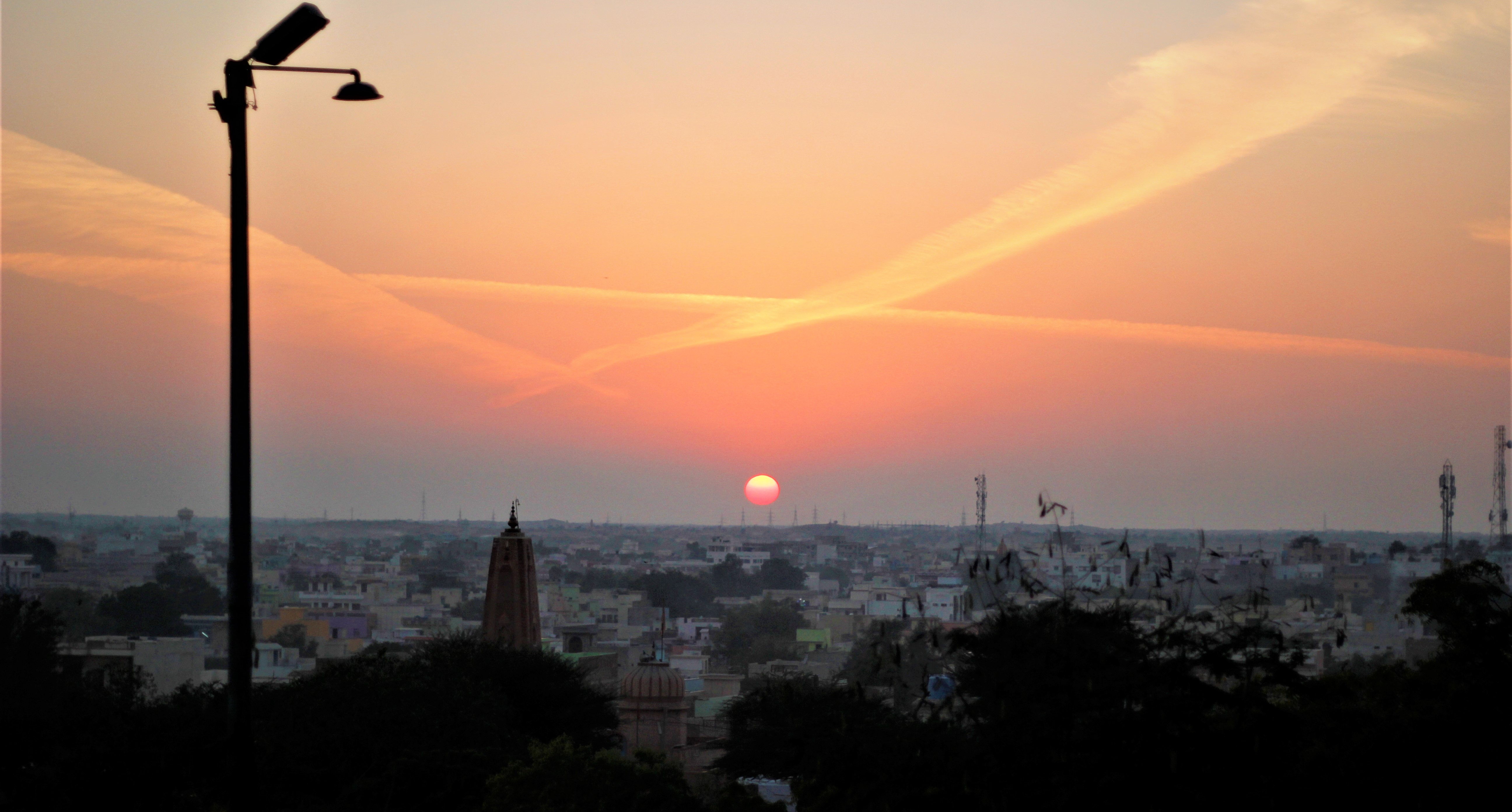 Sri Dungargarh Ramkishan Suthar